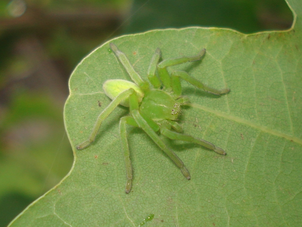 The Green Huntsman Spider (Micrommata virescens)